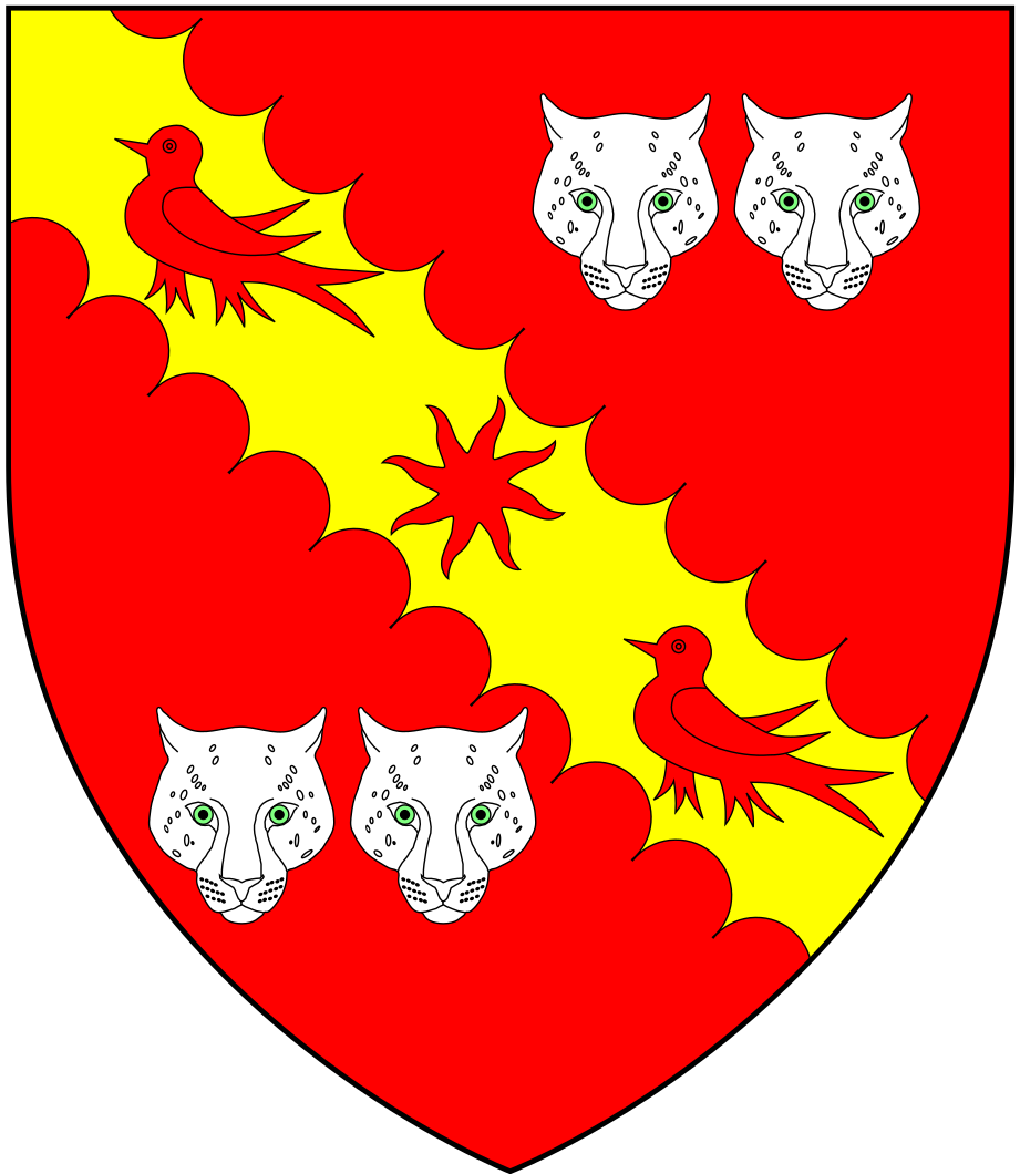 Arms of Nott of Swimbridge, Devon: Gules, on a bend engrailed or between four leopard's faces two and two argent an estoile of eight points between two martlets of the first (Source: Burke's Genealogical and Heraldic History of the Landed Gentry, 15th Edition, ed. Pirie-Gordon, H., London, 1937, p.1699, Pyke-Nott late of Bydown)